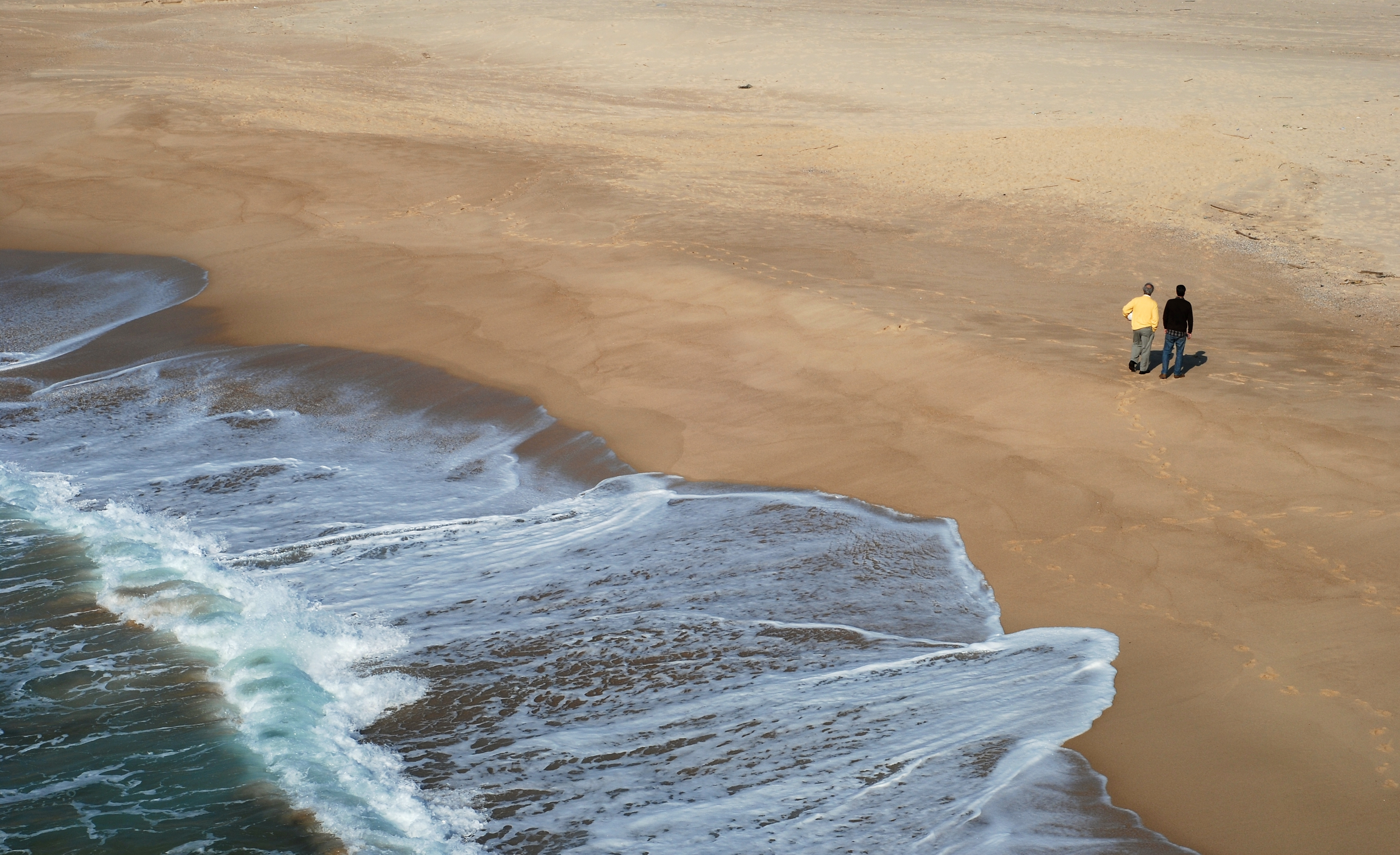 Walking on the beach. Porto Covo, Portugal.